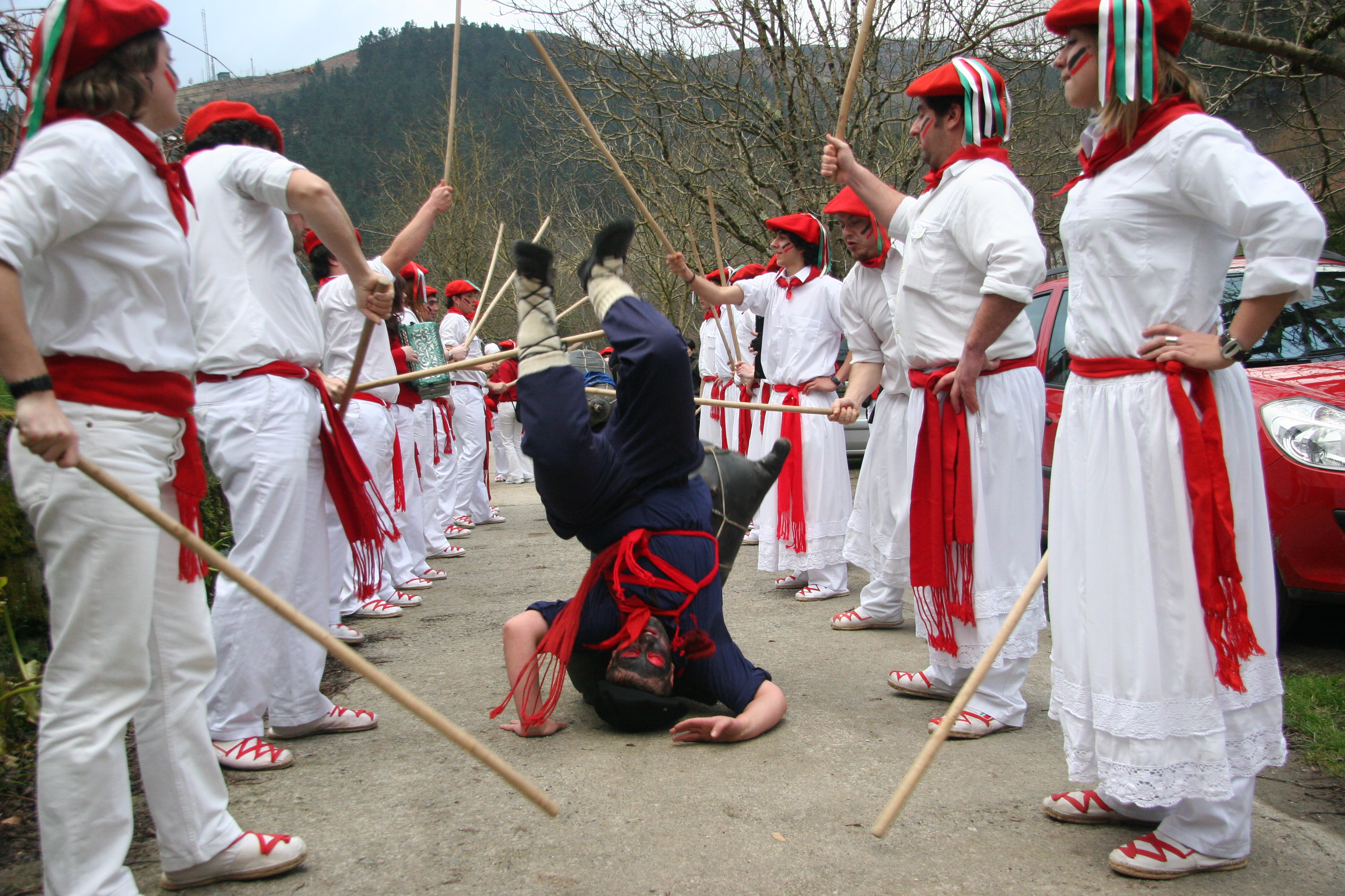 Zahagi dantza in Goizueta carnival